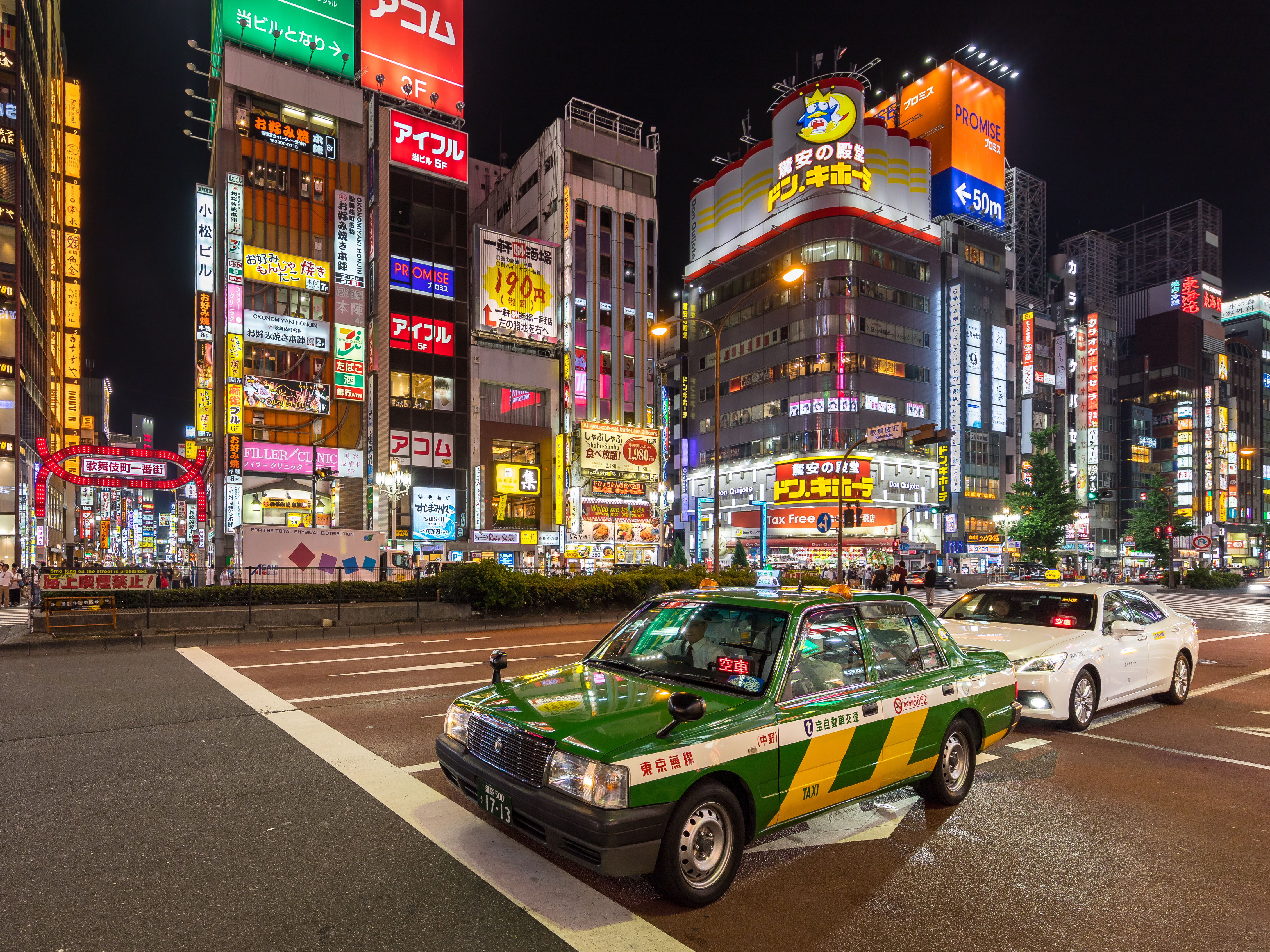 Green and yellow Toyota Crown Comfort taxi at night in Yasukuni-dori Avenue with colorful neon street signs, Kabukichō, Shinjuku, Tokyo, Japan.